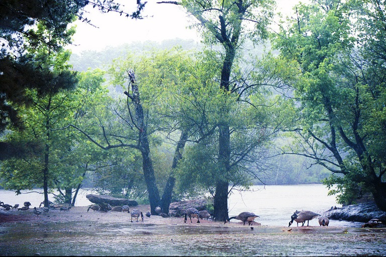 Taken by me, Mikereichold 01:45, 29 December 2005 (UTC) ,using a Rebel 2000 in late May , 2004 and digitalized by Ritz Camera. Picture shows Chattahoochee River at River Park on Willeo Road, Fulton County, Georgia.